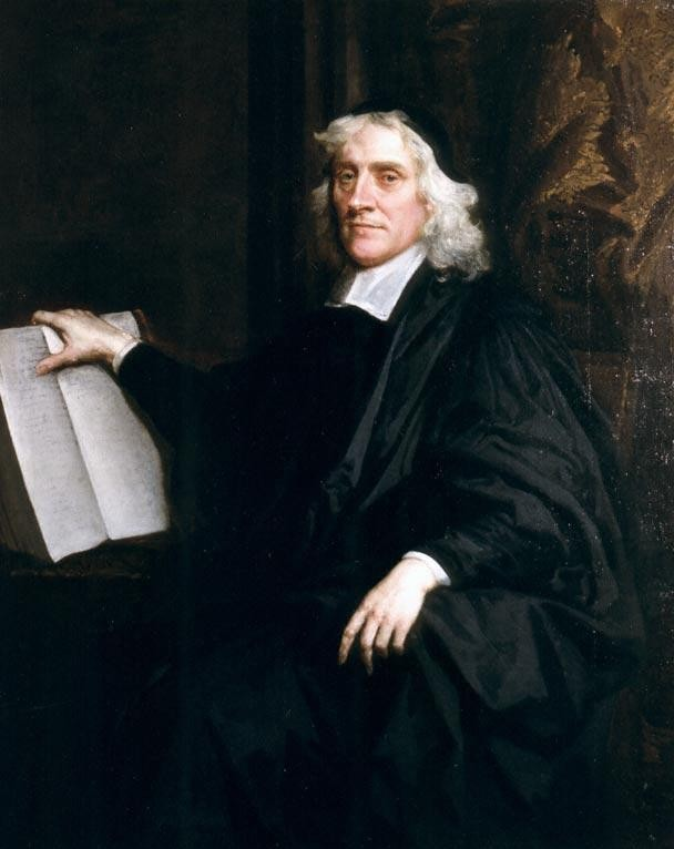 A contemporary portrait of James Sharp, Archbishop of St. Andrews from 1661 to 1679